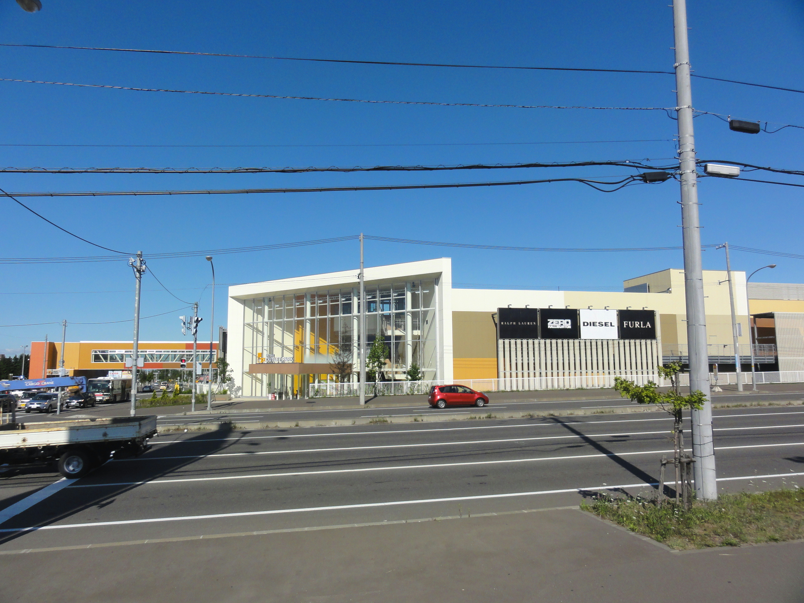 MITSUI OUTLET PARK Sapporo Kitahiroshima (Kitahiroshima, Hokkaidō)